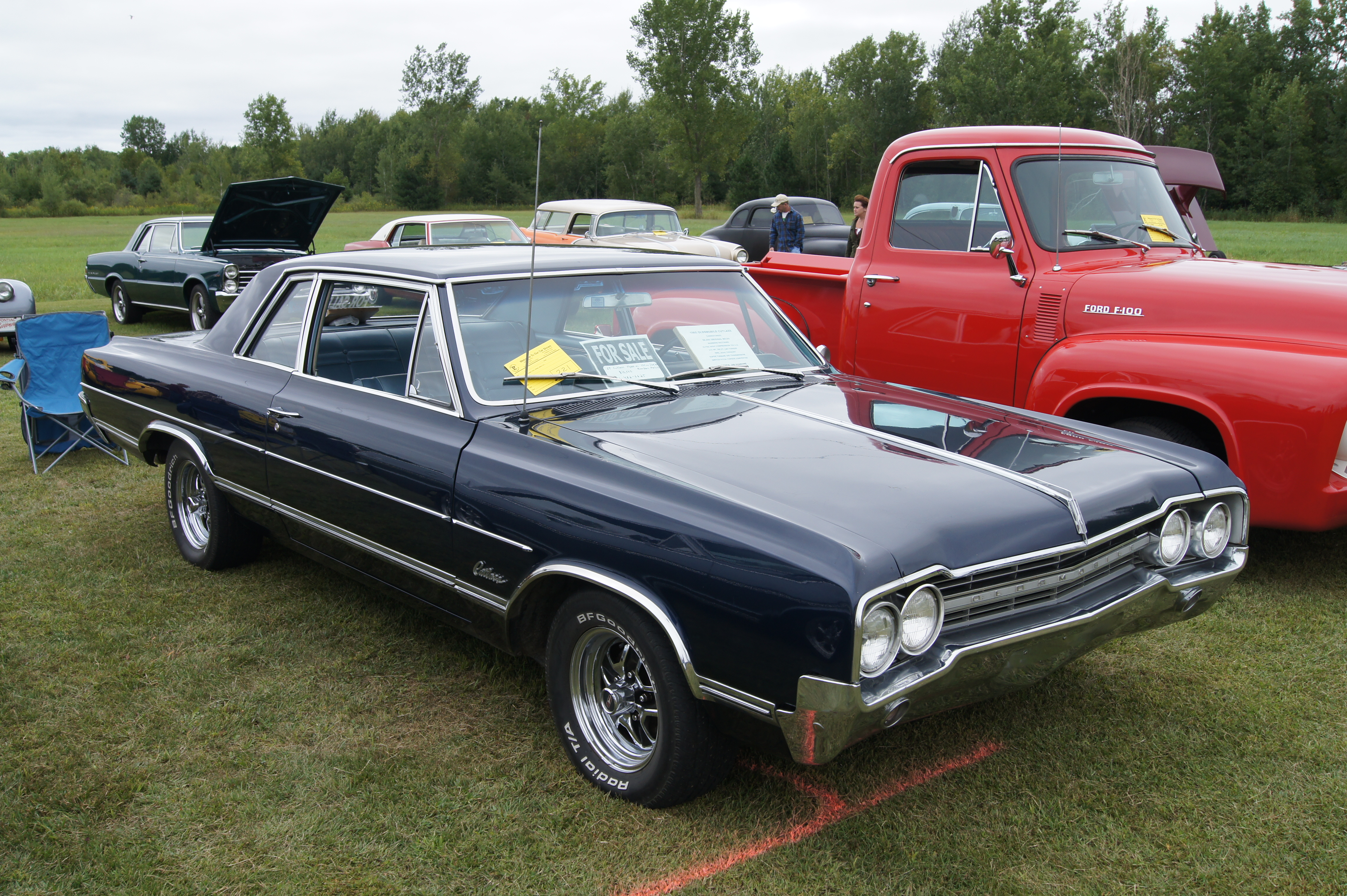 North Star Chapter Studebaker Drivers Club 13th Annual Labor Day Car Show September 2, 2013 Blacksmith Lounge Hugo, MN More Car Pictures